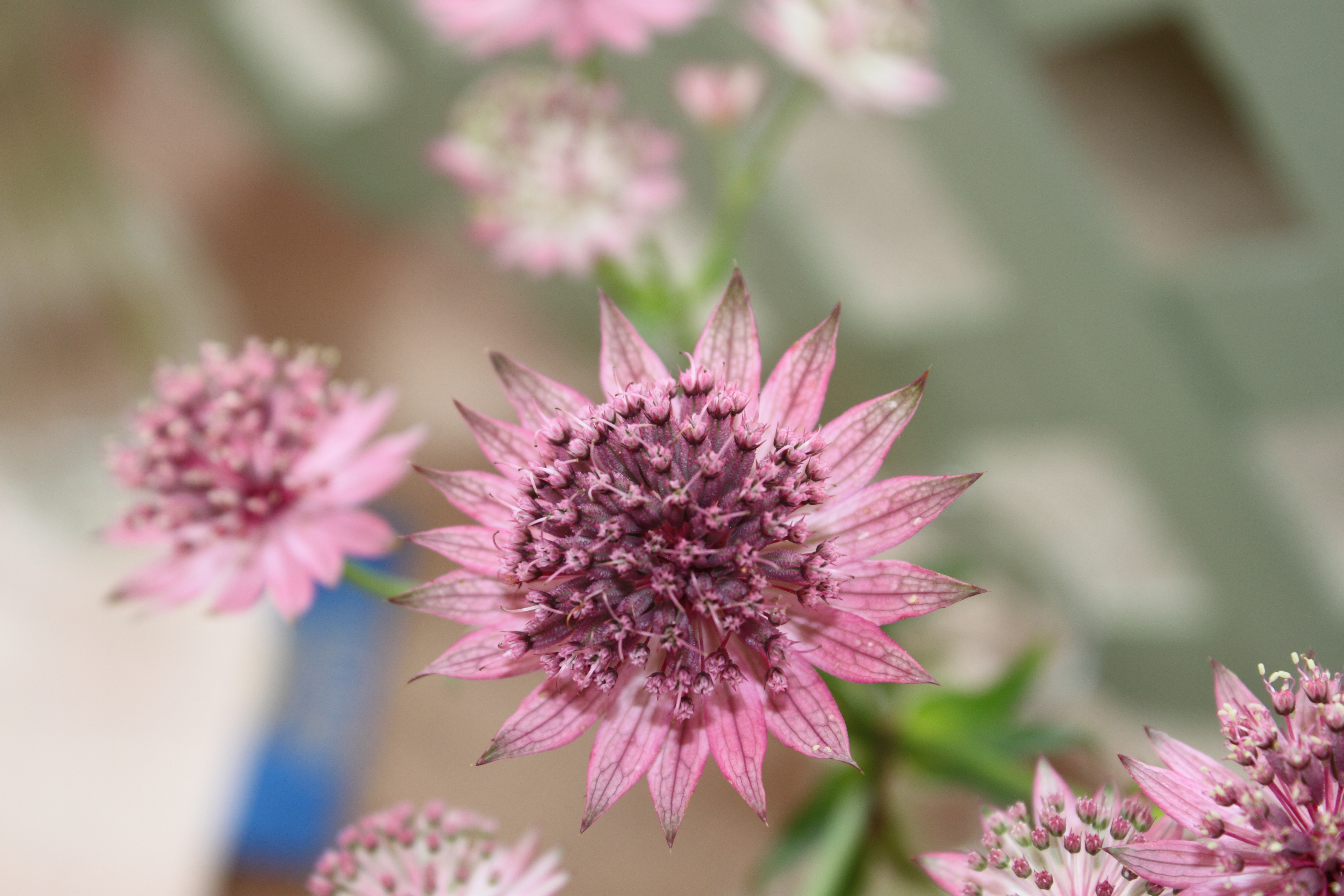 Astrantia major en 'Rubra' taken at the 2011 Newport Flower show at Rosecliff in Newport, Rhode Island.